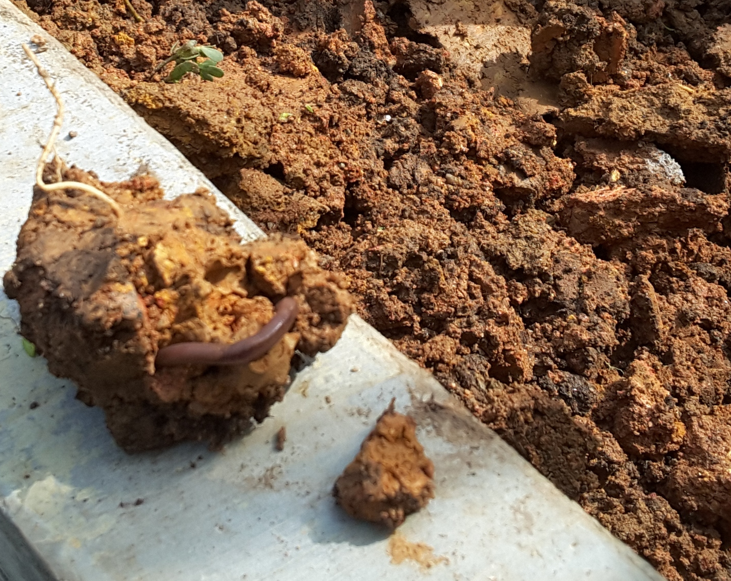 Earthworm in Singaporean soil.